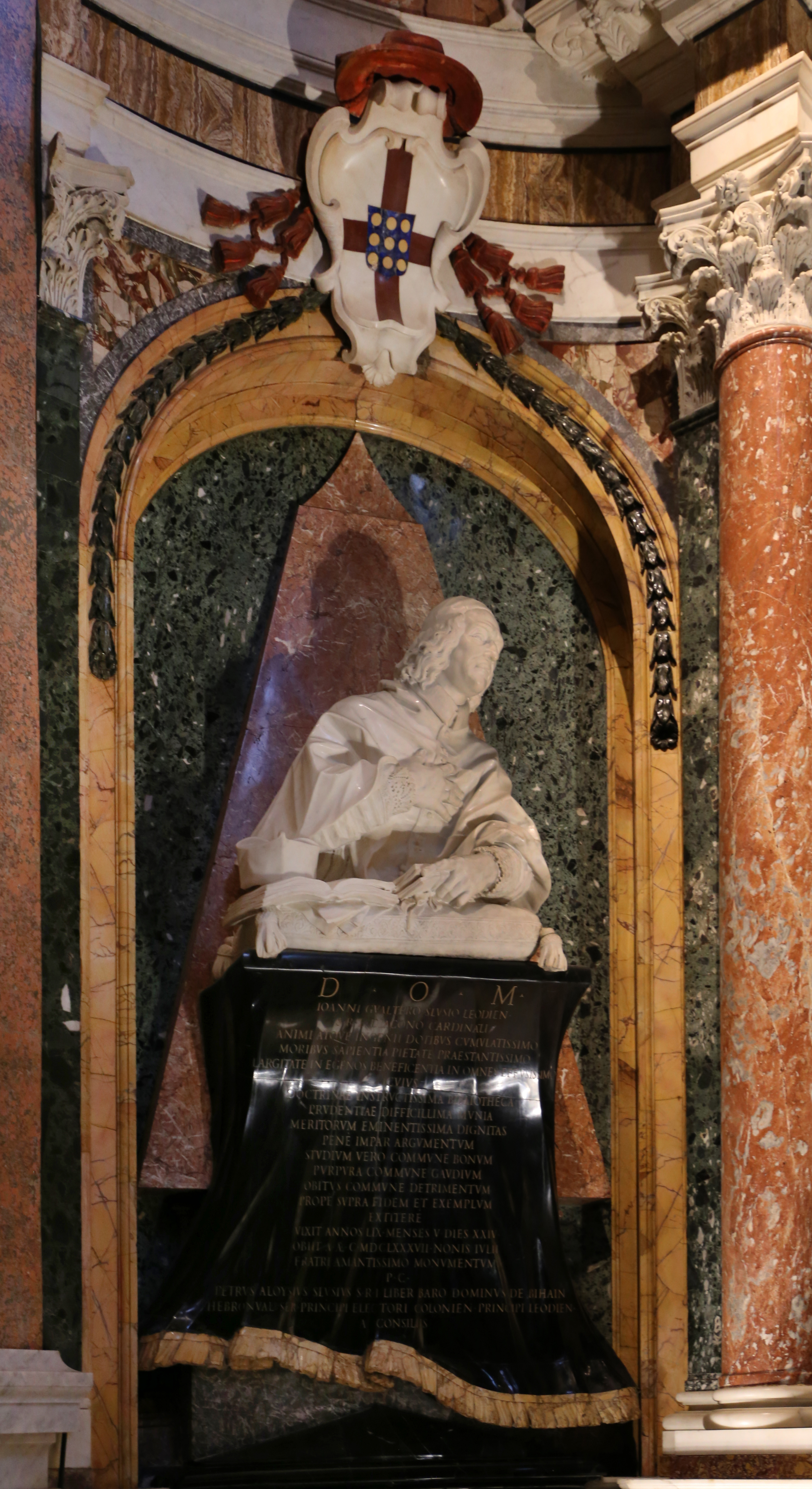 Santa Maria dell'Anima (Rome) - Interior